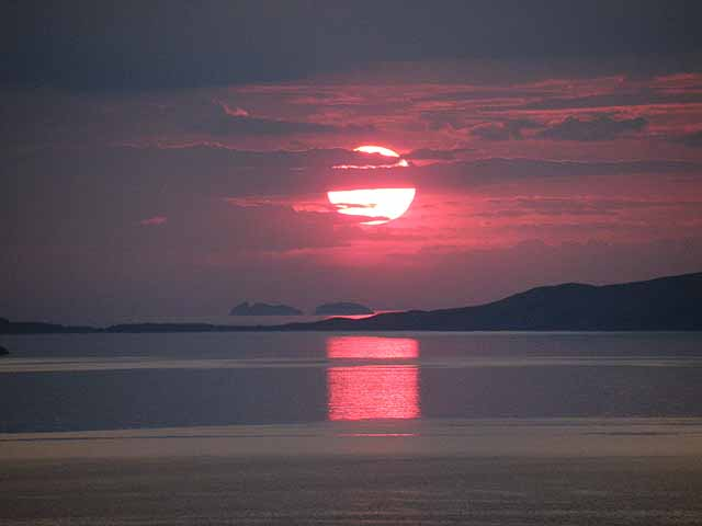 Sunset over Bills Rocks Bills Rocks are two tiny islands set far out in the mouth of Clew Bay. Here seen from the hillside above Killeen over 25 Km away. The nearer land is the low-lying promontory at the south-west corner of Clare Island.